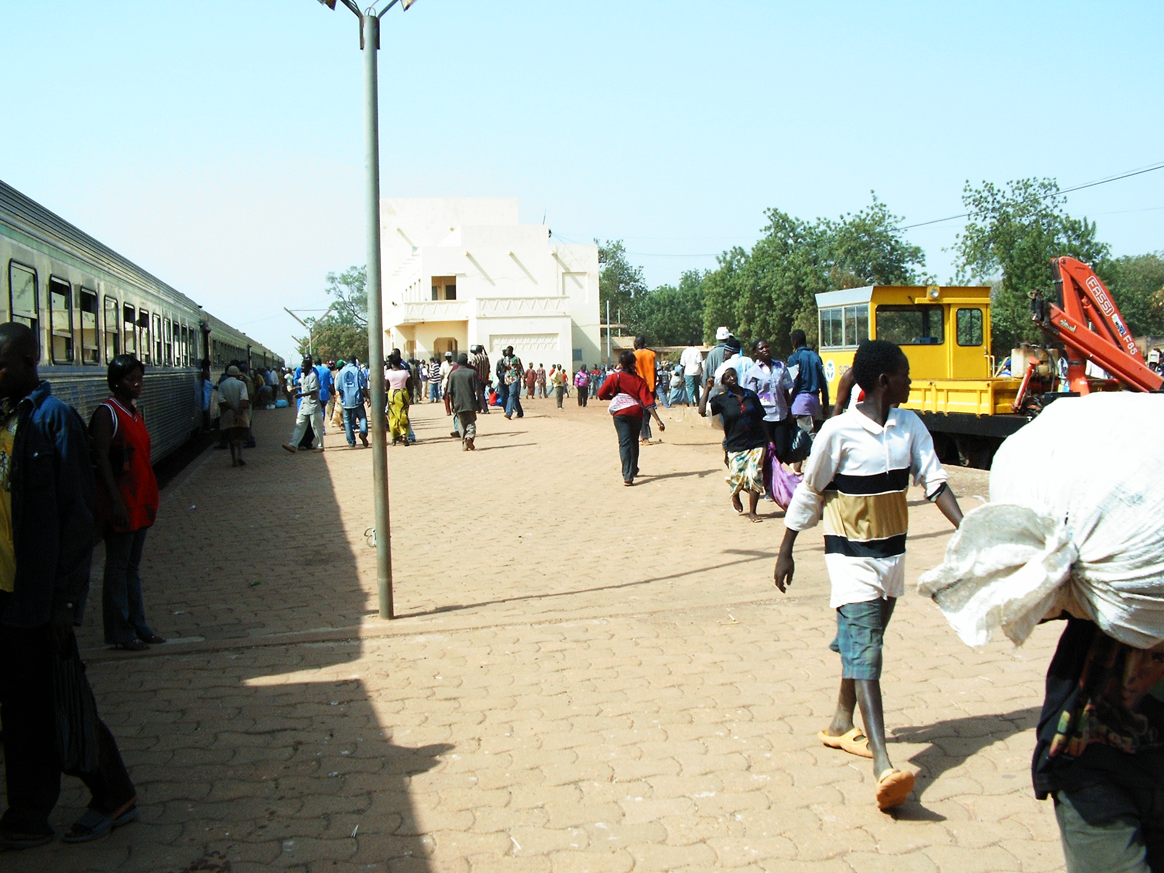 Train station in Koudougou, Burkina Faso picture taken by author